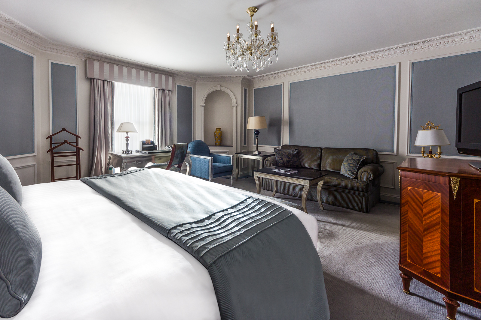 Deluxe King Room at The Bentley London